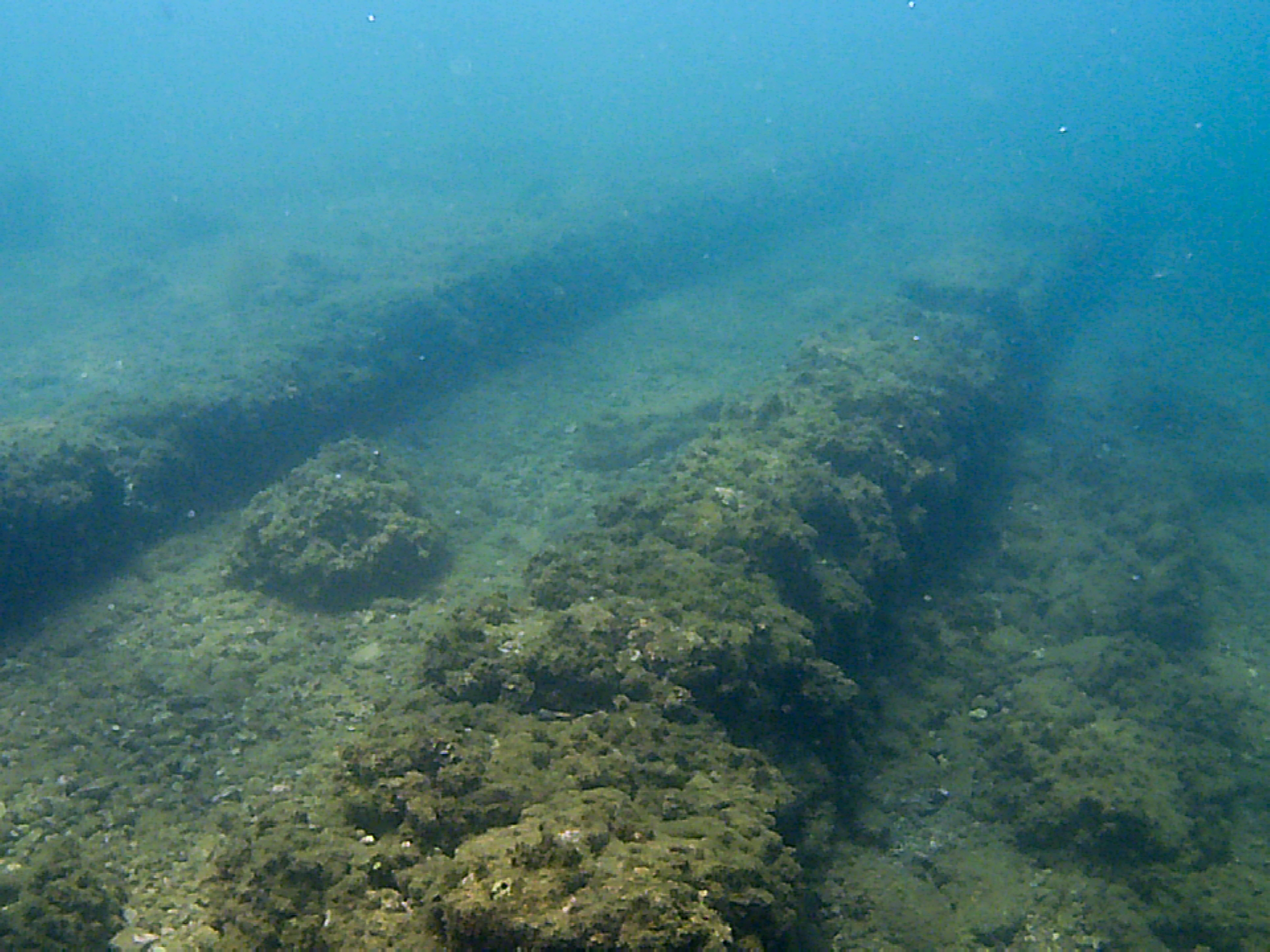 Channel, Portus Julius. Underwater Archaeological Park of Baiae